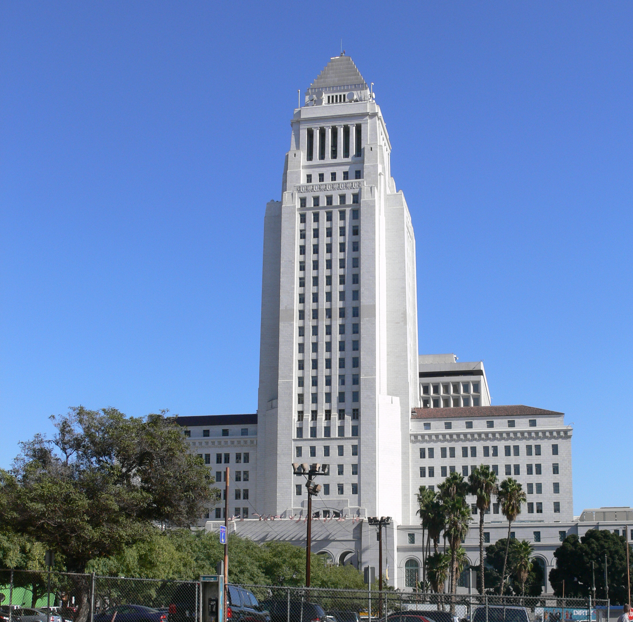 Los Angeles City Hall